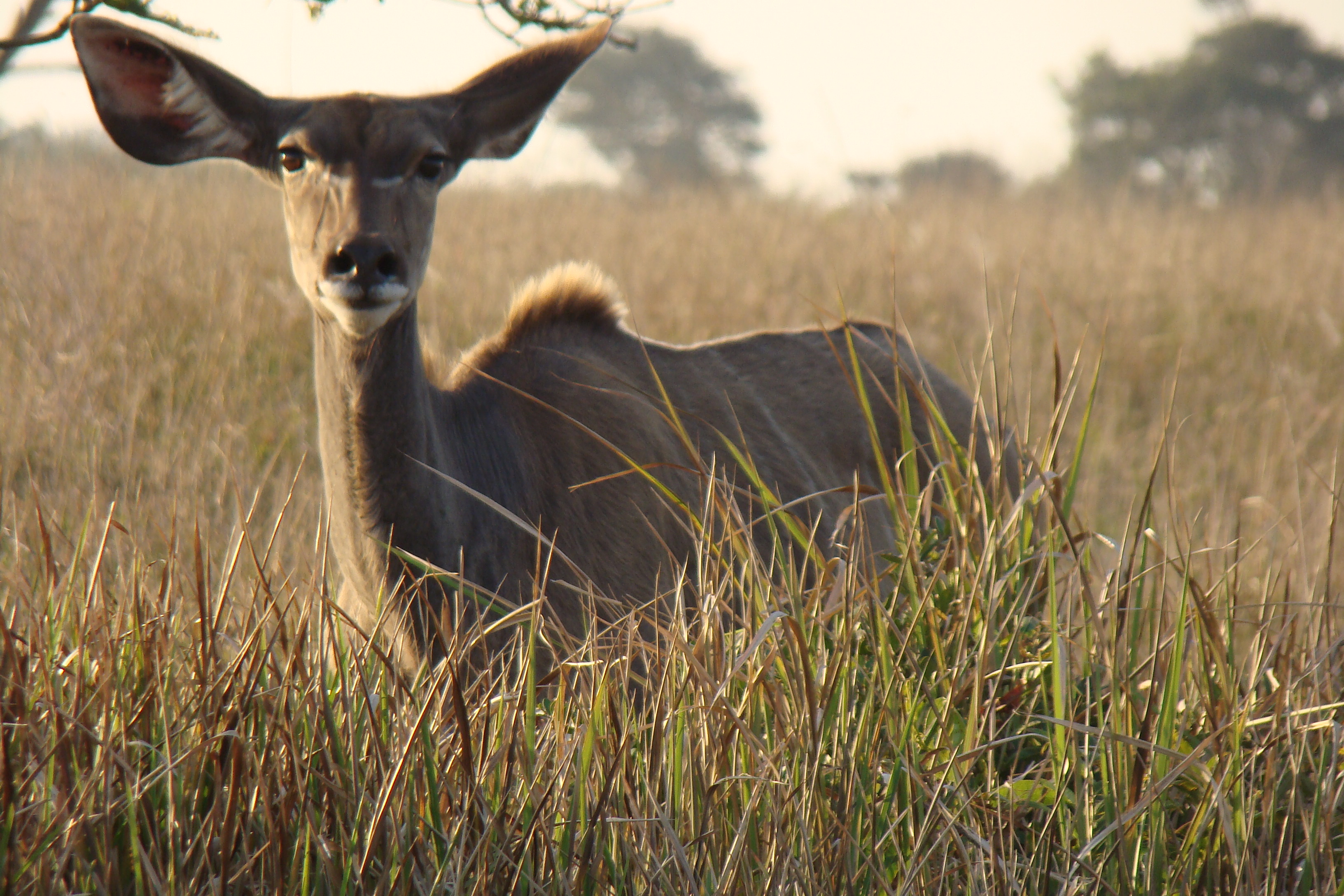 Female Kudu, photographed in Sabi Sand Private Game Reserve, South Africa.